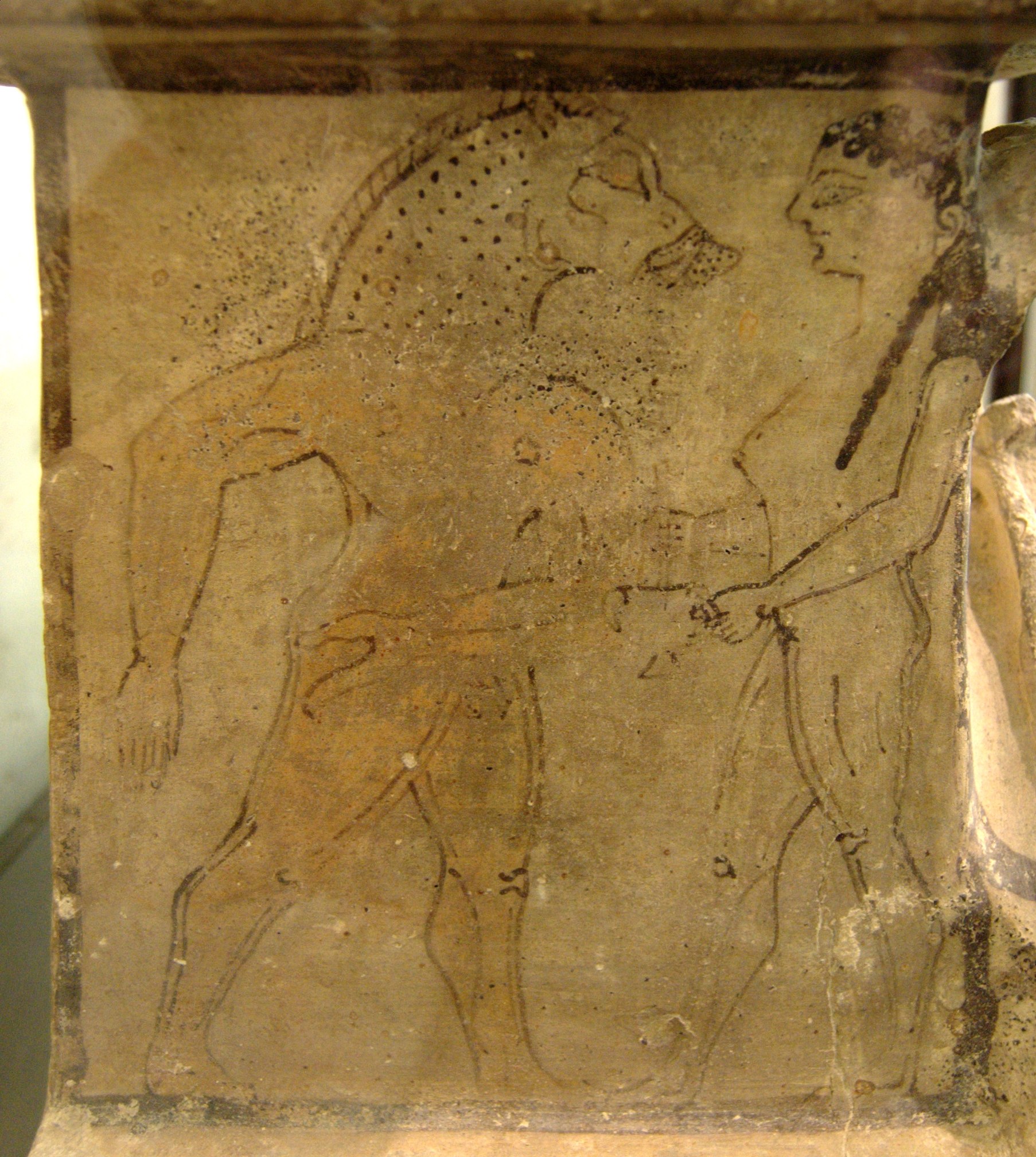 Arula (small altar): polychrome relief showing the fight of Heracles and Triton. From Sicily (Gela?), made in Metaponte (?), third quarter of the 6th century BC.